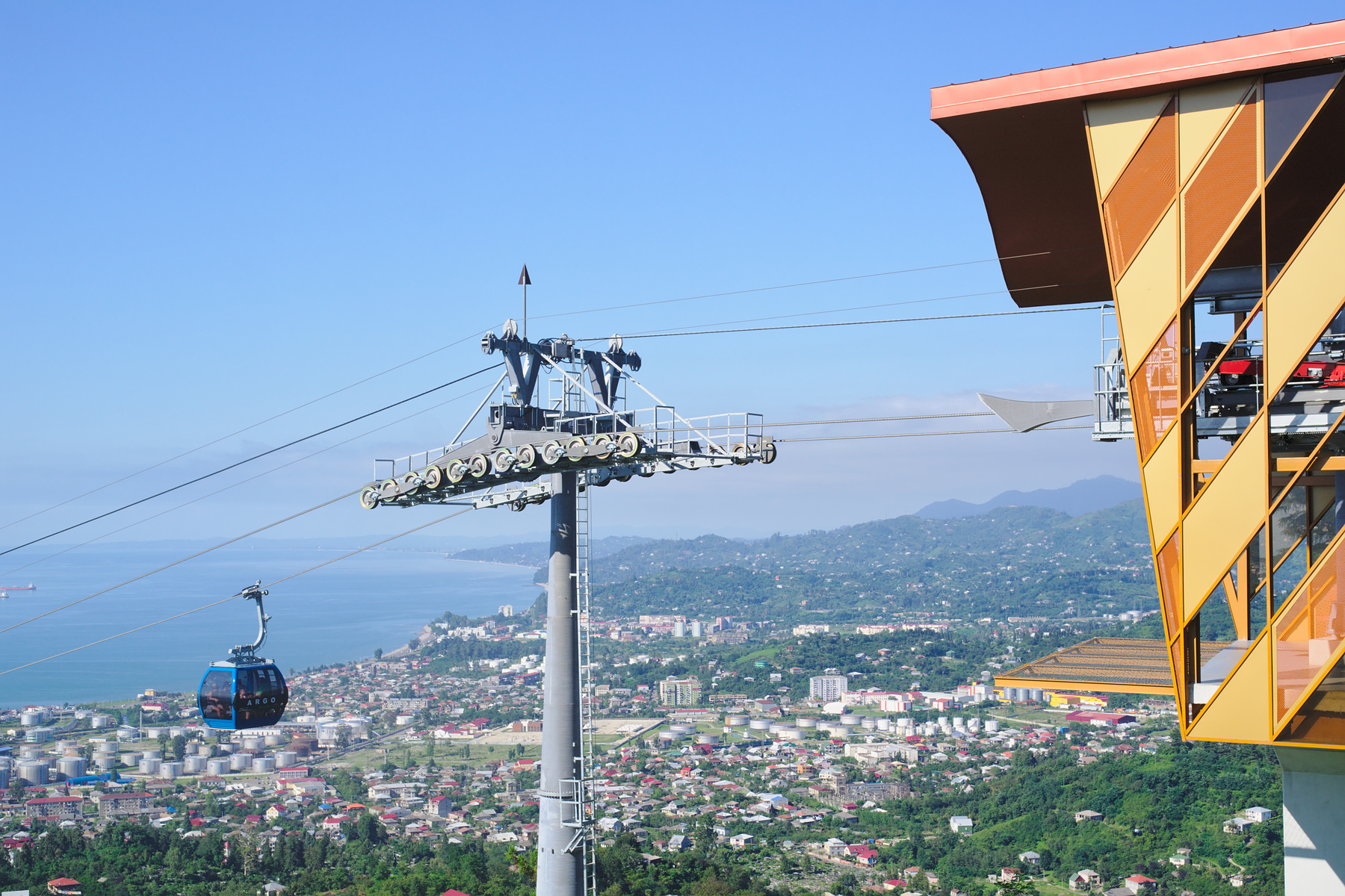 Aerial tramway in Batumi